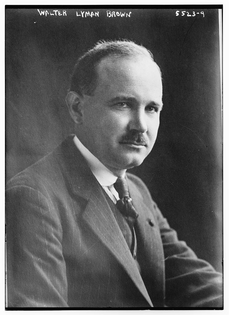 Title: Walter Lyman Brown Abstract/medium: 1 negative : glass ; 5 x 7 in. or smaller.